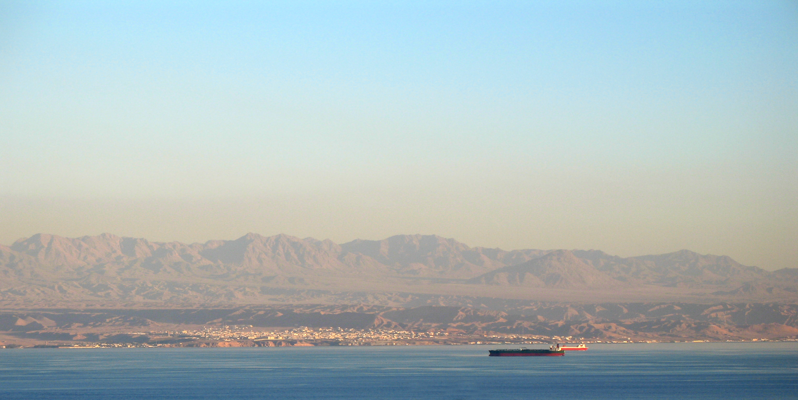 The town of Haql at the Gulf of Aqaba, northwest Saudi Arabia